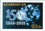 N 1223 - 50 qapik - The 150th Ann. of the International Telecommunication Union.